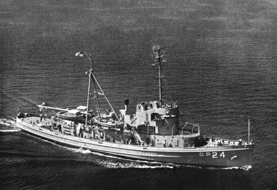 The U.S. Navy surveying ship USS Serrano (AGS-24) during survey operations in the Gulf of Siam, circa 1961. Serrano had been originally commissioned as the Abnaki-class fleet ocean tug USS Serrano (ATF-112) on 22 September 1944. On 31 May 1950, Serrano was decommissioned and berthed with the Pacific Reserve Fleet at San Francisco, California (USA). A year later, she was towed to San Diego where she remained until ordered activated and converted for hydrographic survey and oceanographic research work in 1960. With the designation AGS-24, she was recommissioned on 30 June 1960. She was finally decommissioned on 2 January 1970.